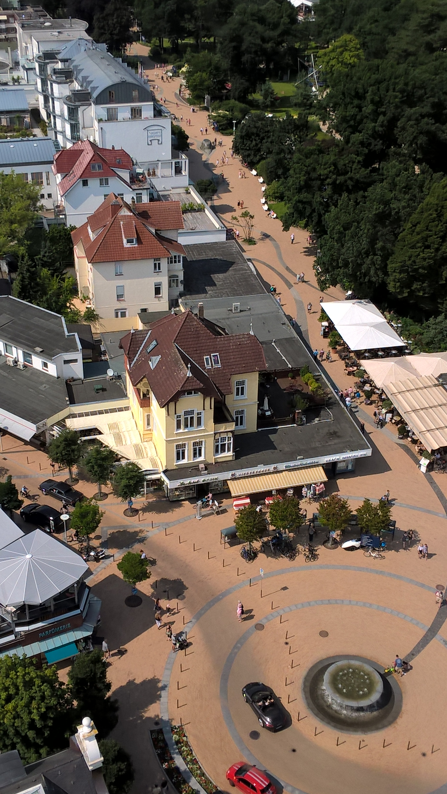 Timmendorfer Strand, view from the City Sky Liner: Center